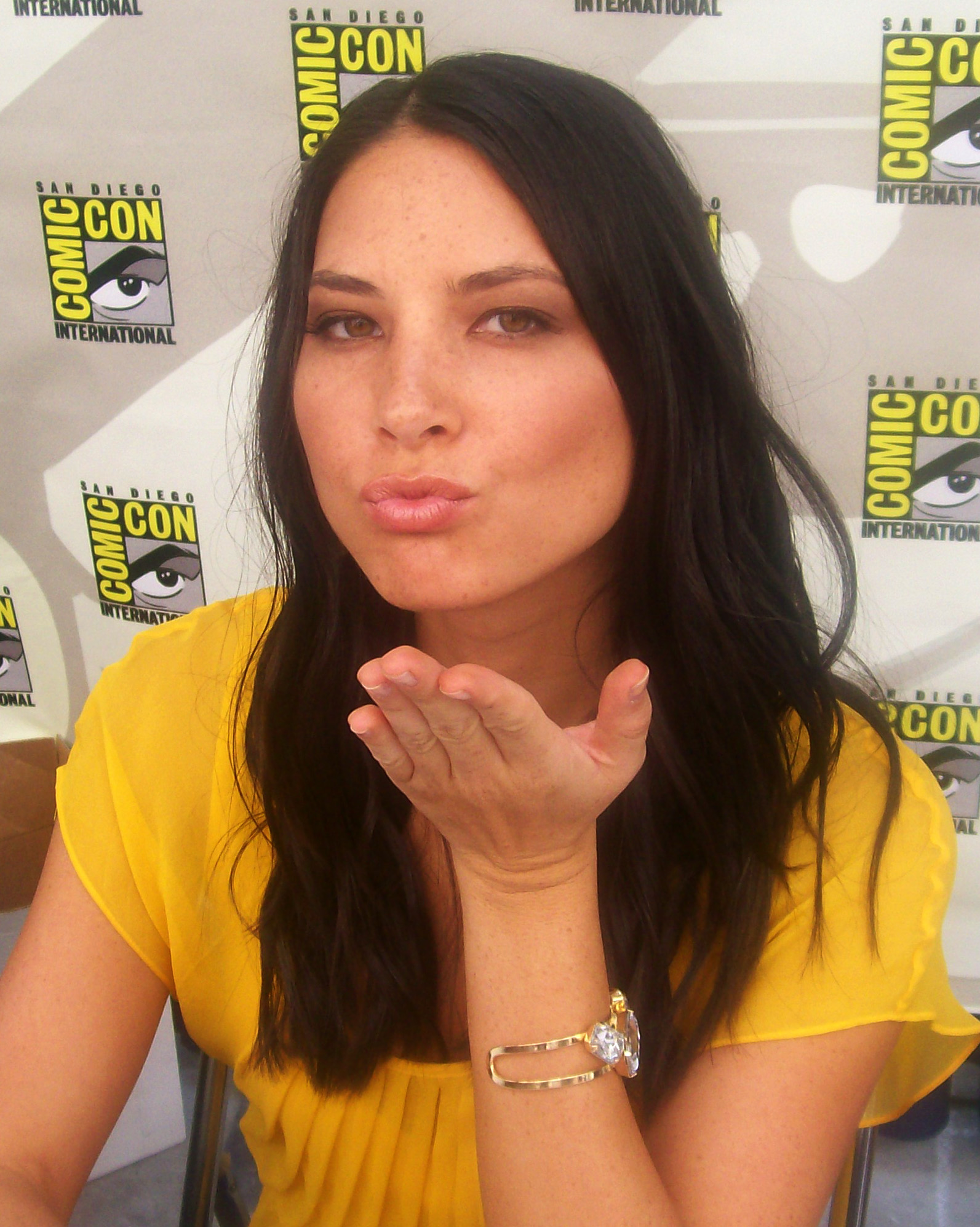 Olivia Munn at the 2007 Comic-Con. Picture taken by myself.